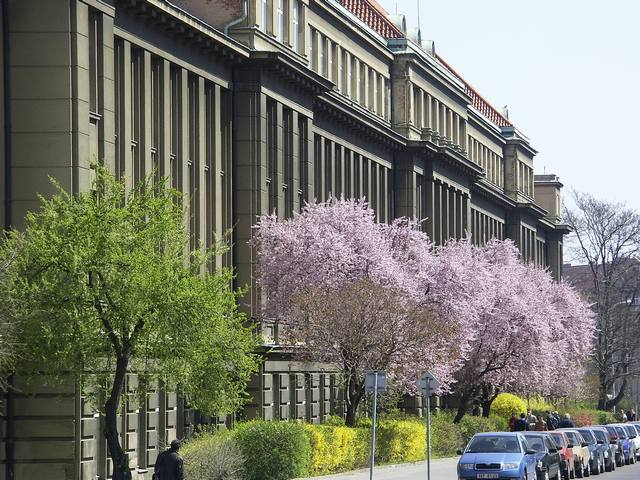 Seat of the Rectorate of the Czech Technical University in Prague (view of the Zikova Street)